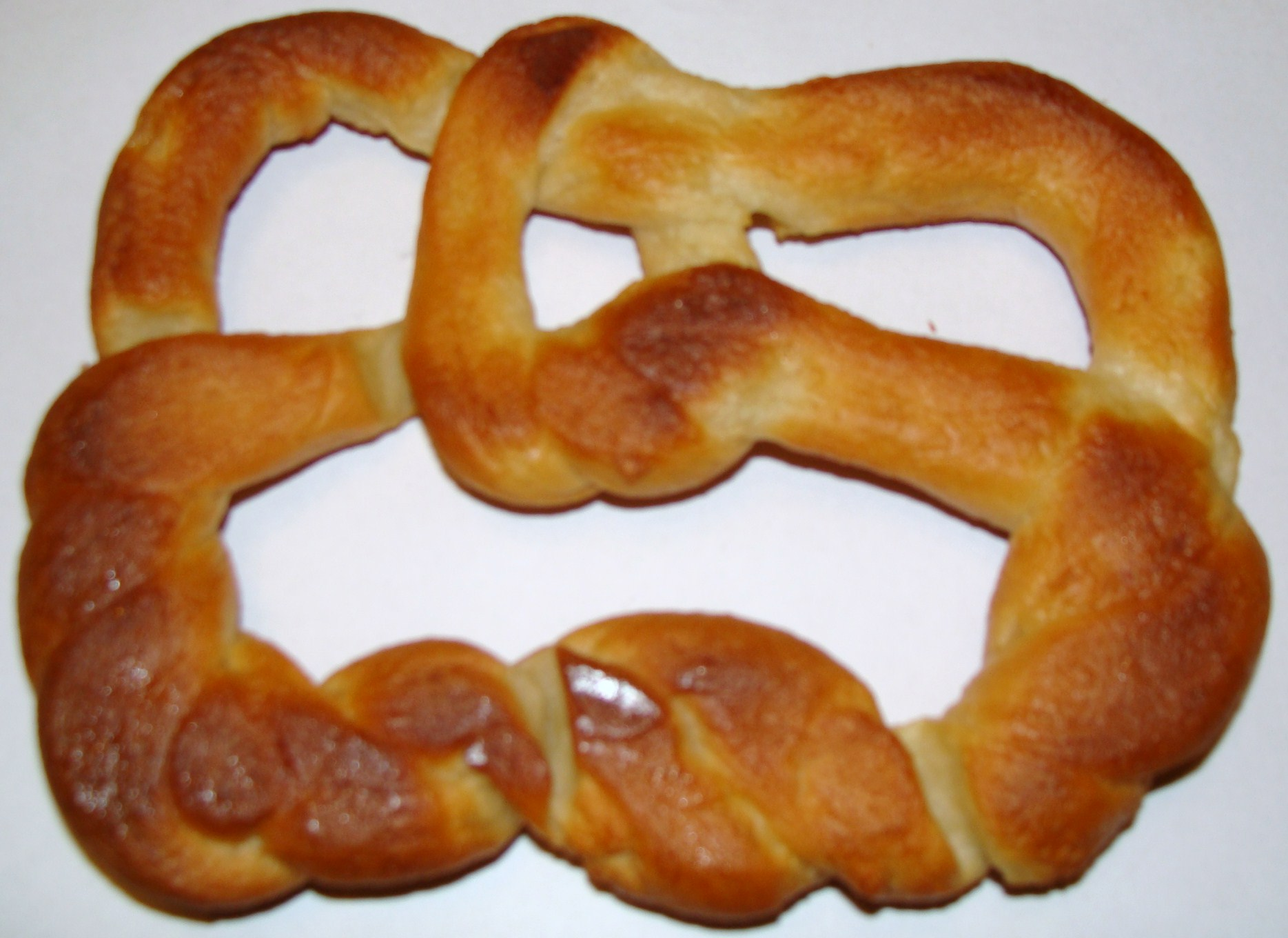 An edible (−2,3,7) pretzel knot with two right-handed twists in its first tangle, three left-handed twists in its second, and seven left-handed twists in its third.